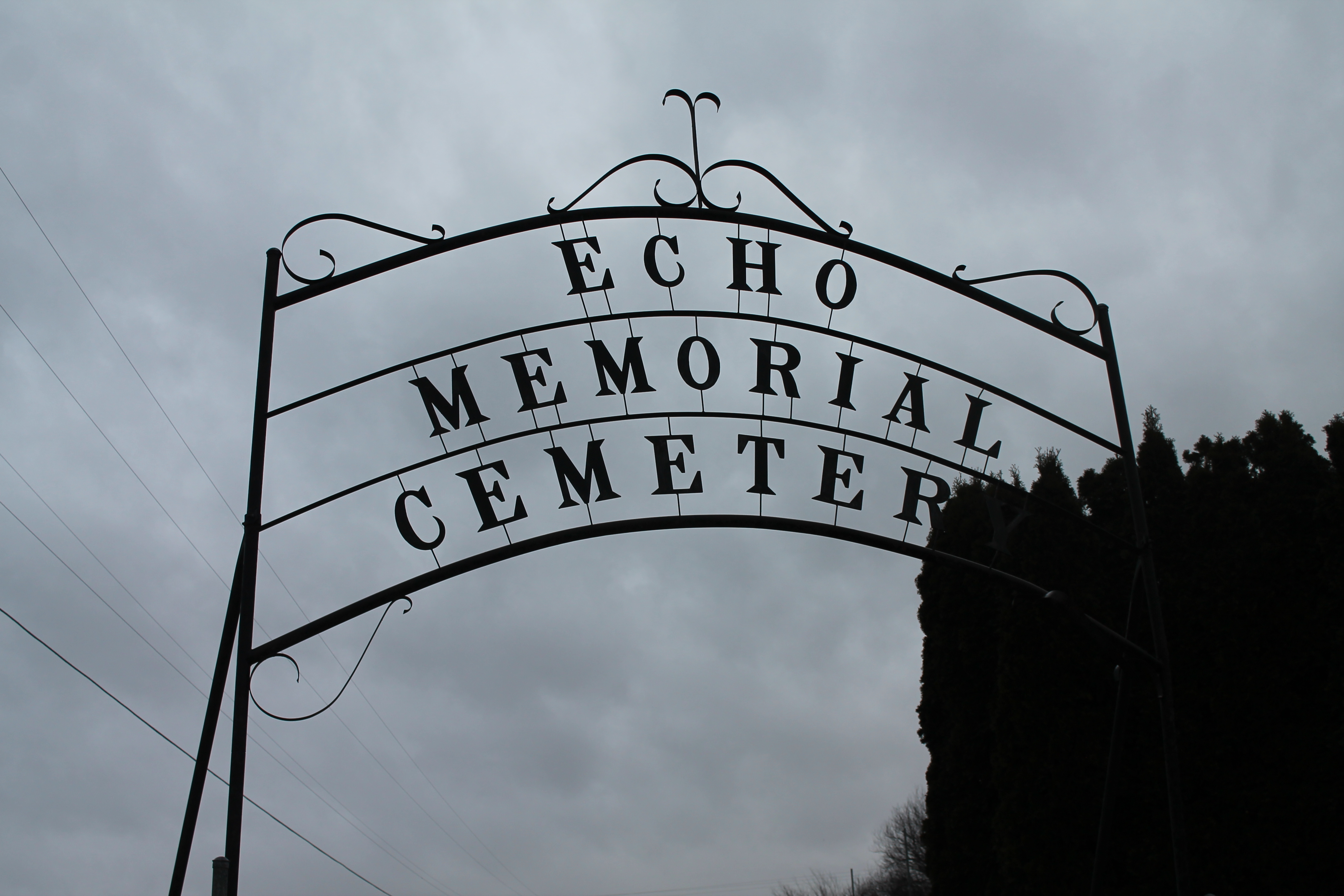 Echo, Oregon has a pioneer cemetery with very old (by Oregon standards) graves and a beautiful view of the surrounding Eastern Oregon region.